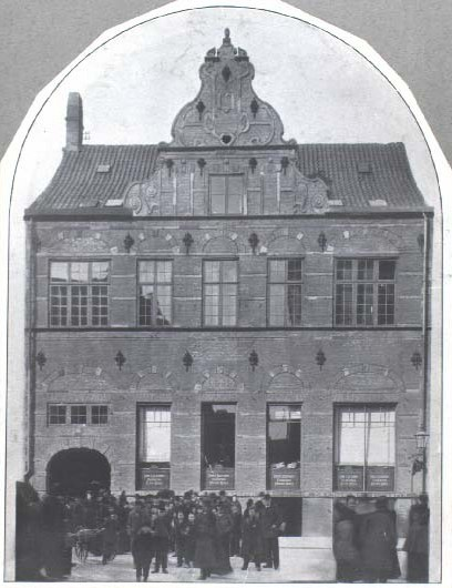 Efterslægtselskabets Skole in Copenhagen, demolished 1913.